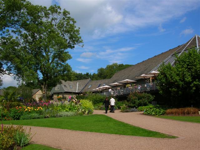 Harlow Carr - Cafe & Entrance RHS Harlow Carr is a 58 acre botanical garden in Harrogate and is one of 4 owned by the RHS who recently acquired it. This area is the first you see on entering the gardens, and is mainly herbaceous borders.